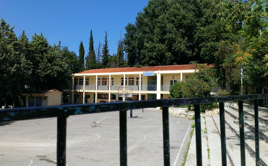 σχολείο